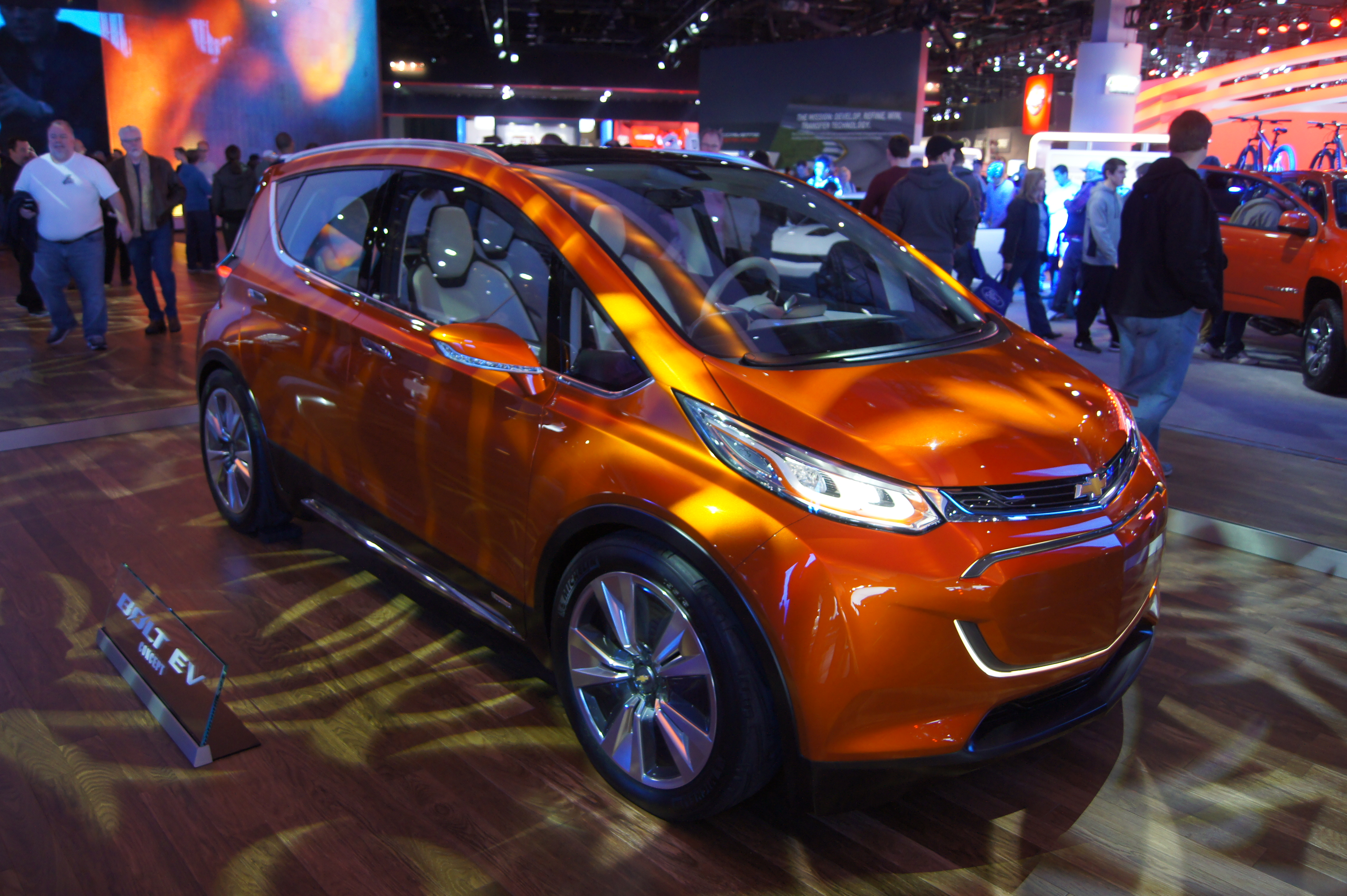 All-electric Chevrolet Bolt Concept unveiled at the January 2015 North American International Auto Show